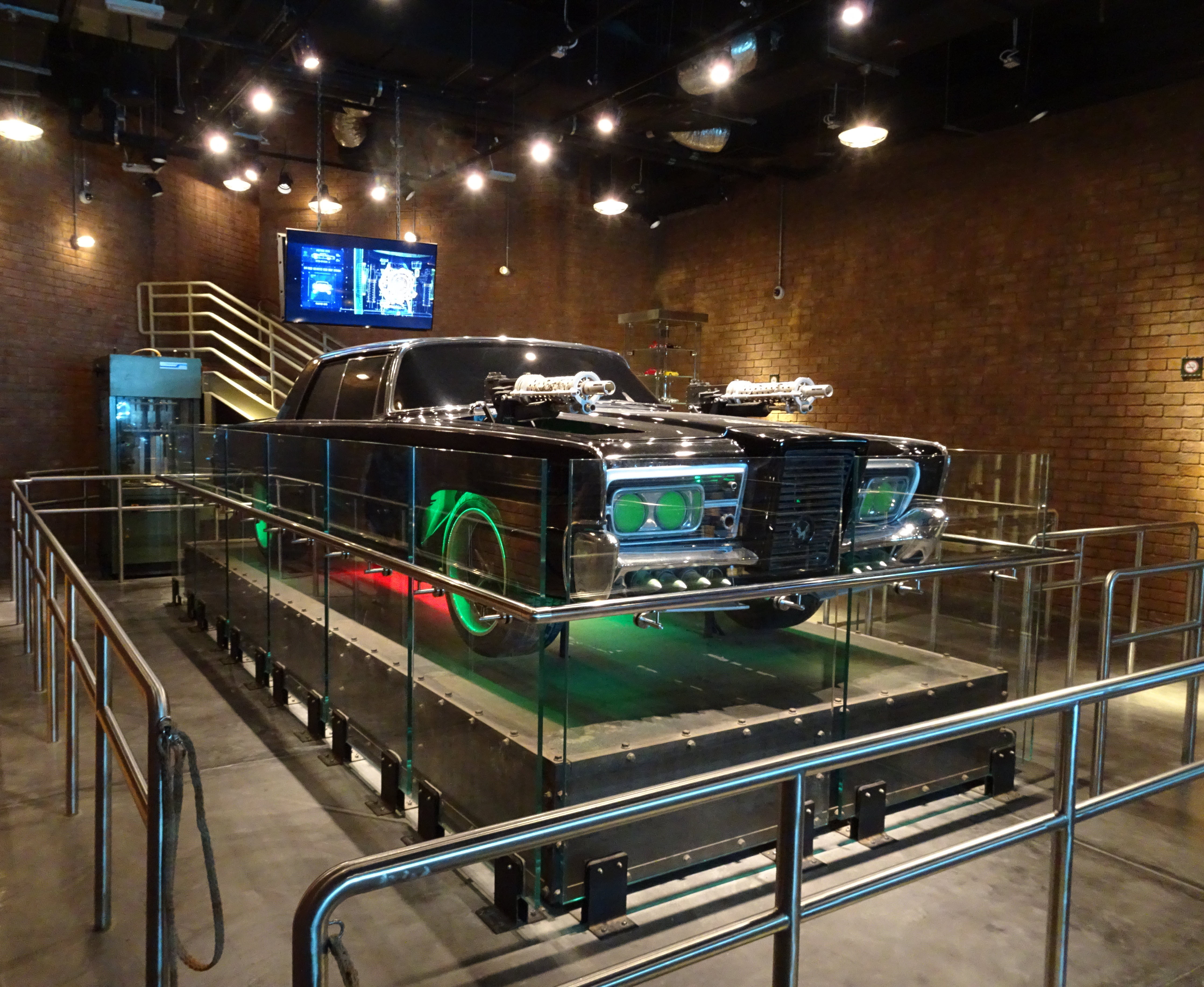 This is the car from the film in the queue for the Green Hornet roller coaster at Motiongate Dubai.